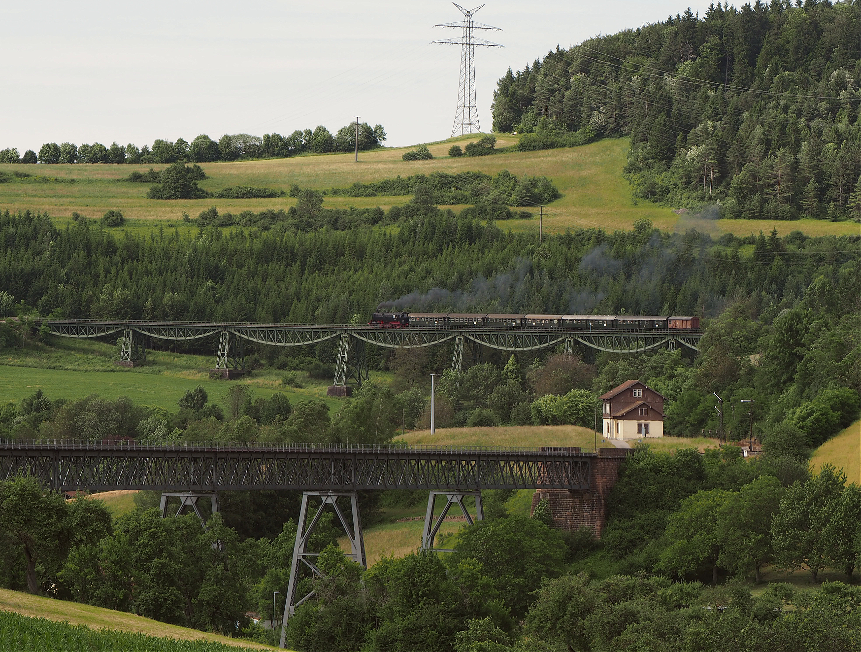 Biesenbach-Viadukt,Lok 262 heading back to Blumberg Zollhaus.